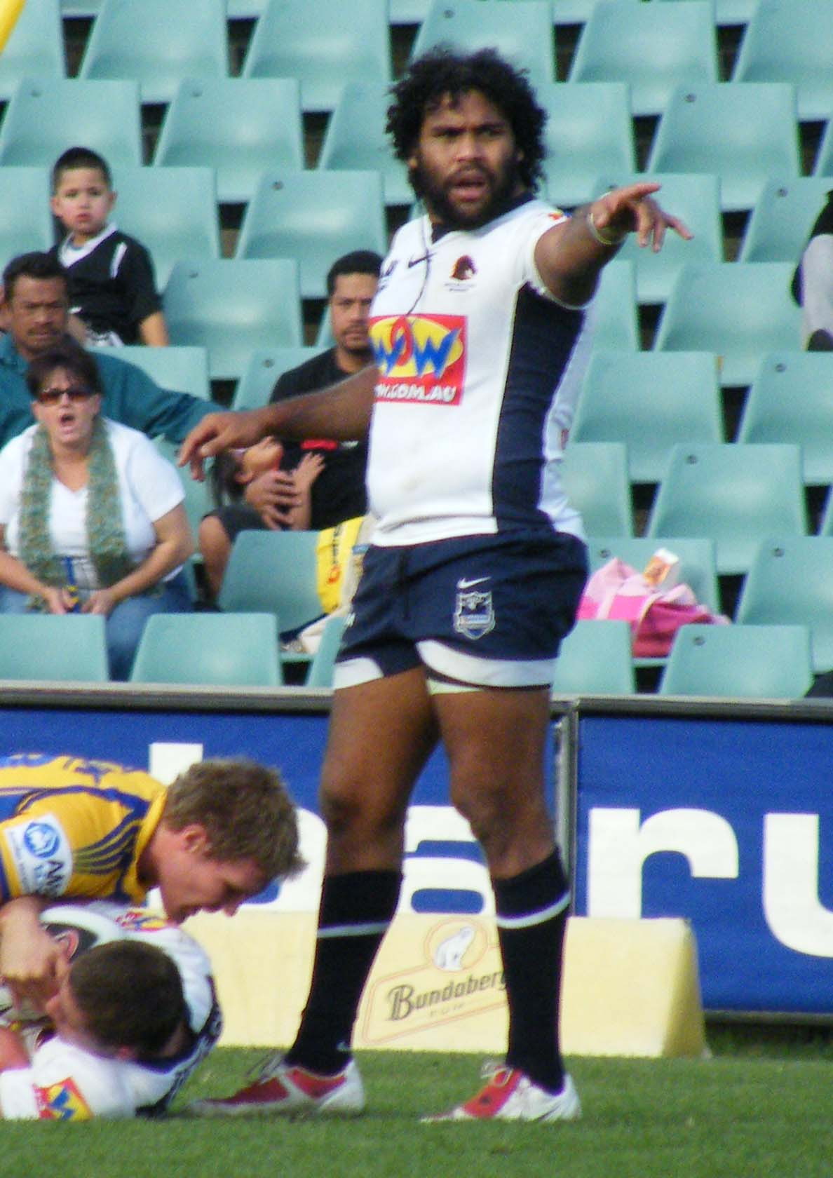 Sam Thaiday of the Brisbane Broncos RLFC